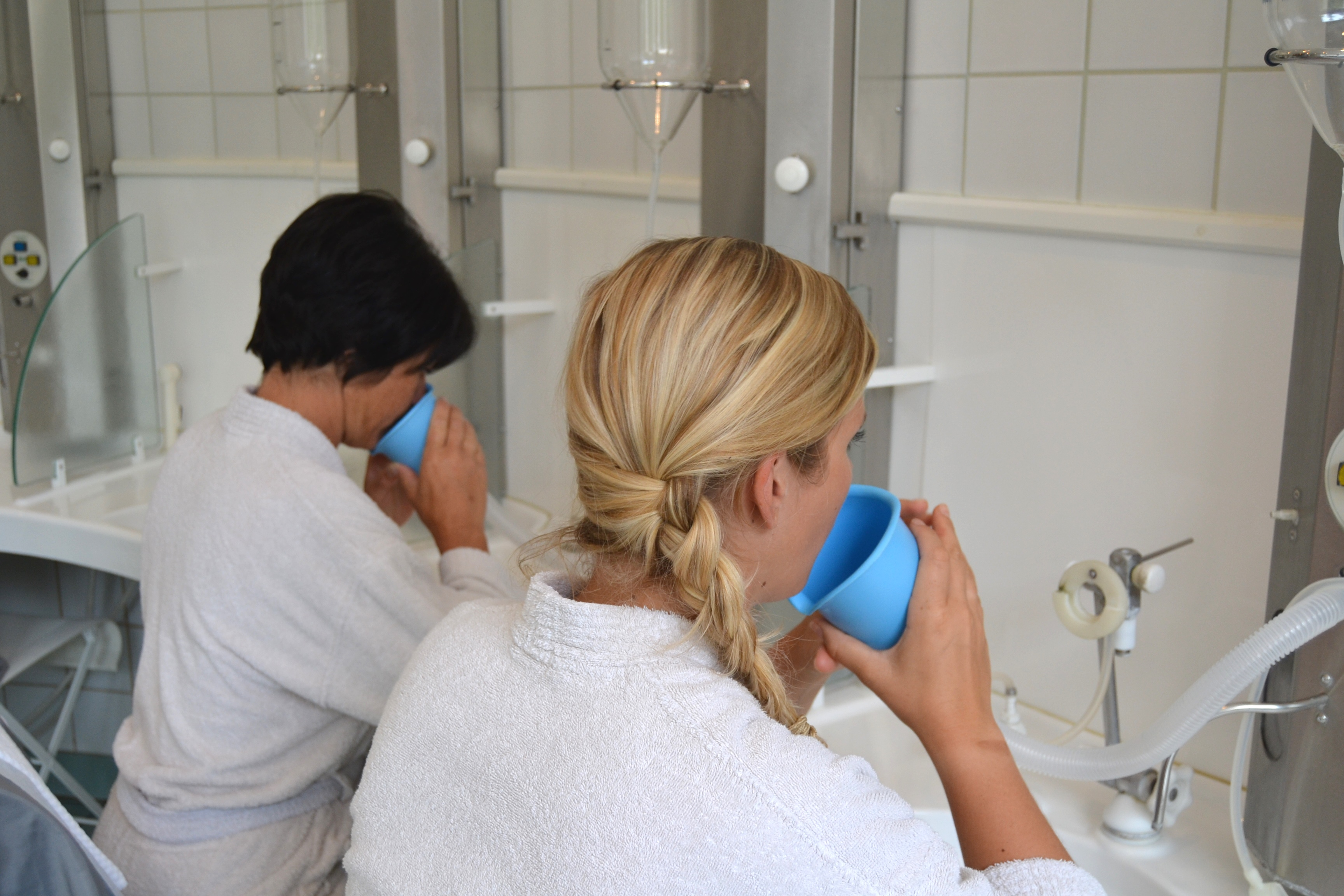 The inhalation room of the thermal baths of Challes-les-Eaux on September 5, 2016.